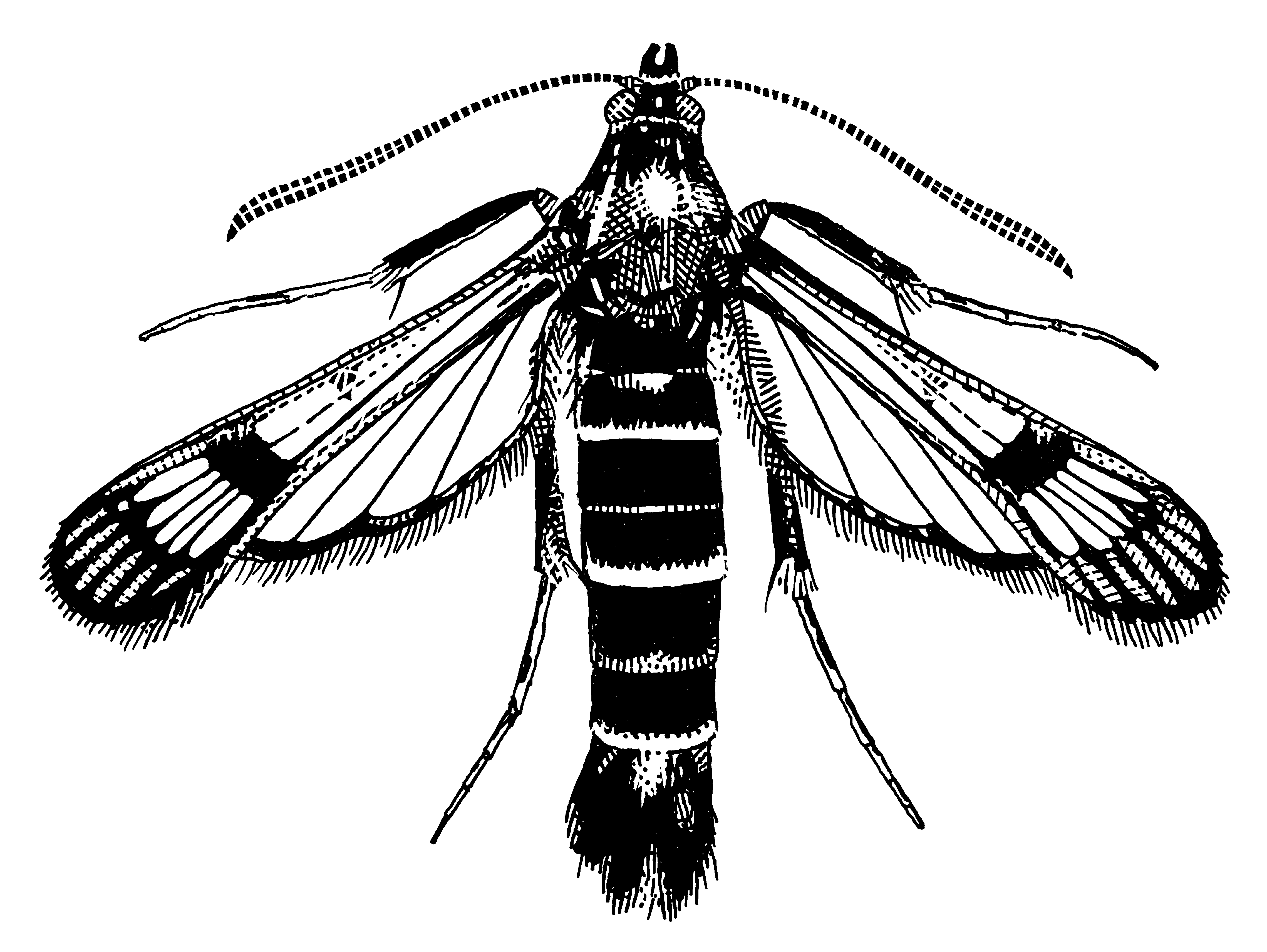 (Lepidoptera: Sesiidae) Synanthedon tipuliformis illustrated by Des Helmore.